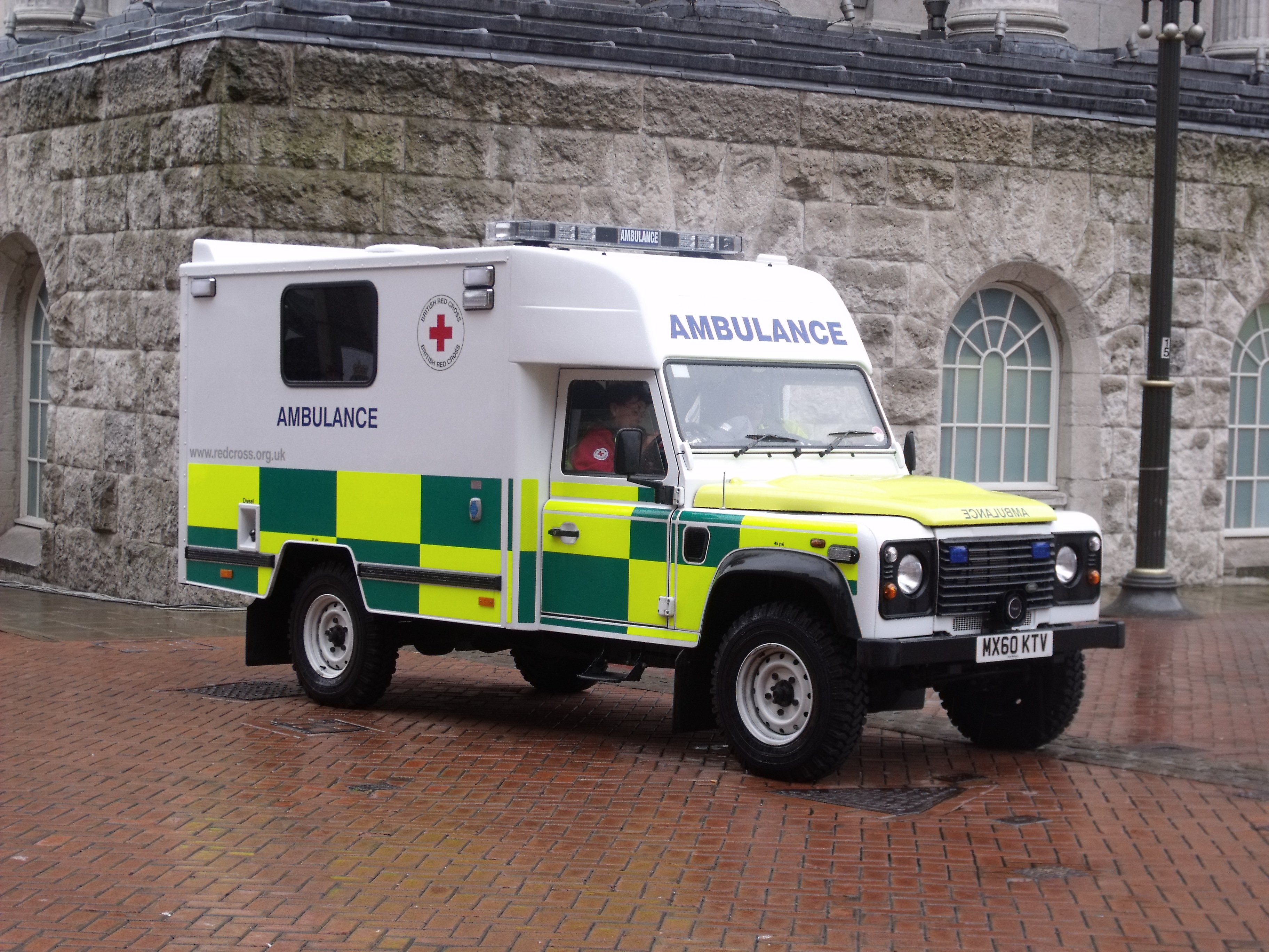 Armed Forces Day in Birmingham City Centre on a rainy morning. Red cross ambulance in Chamberlain Square. It is a Land Rover. Outside the Town Hall.